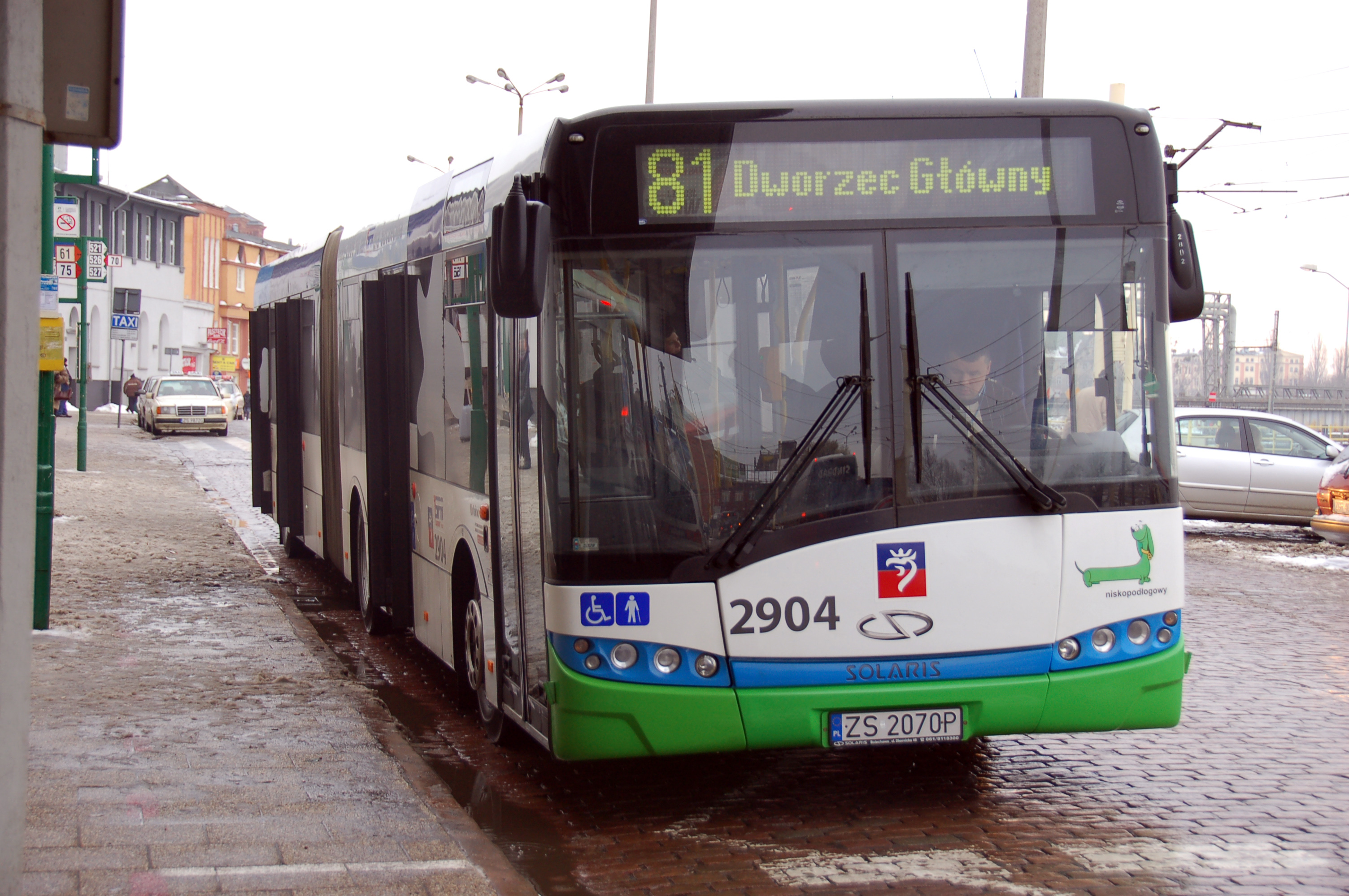 Stettin central train station in Poland. Solaris Urbino 18 W37 bus (#2904), built 2009, SPA Dąbie from Szczecin operator.